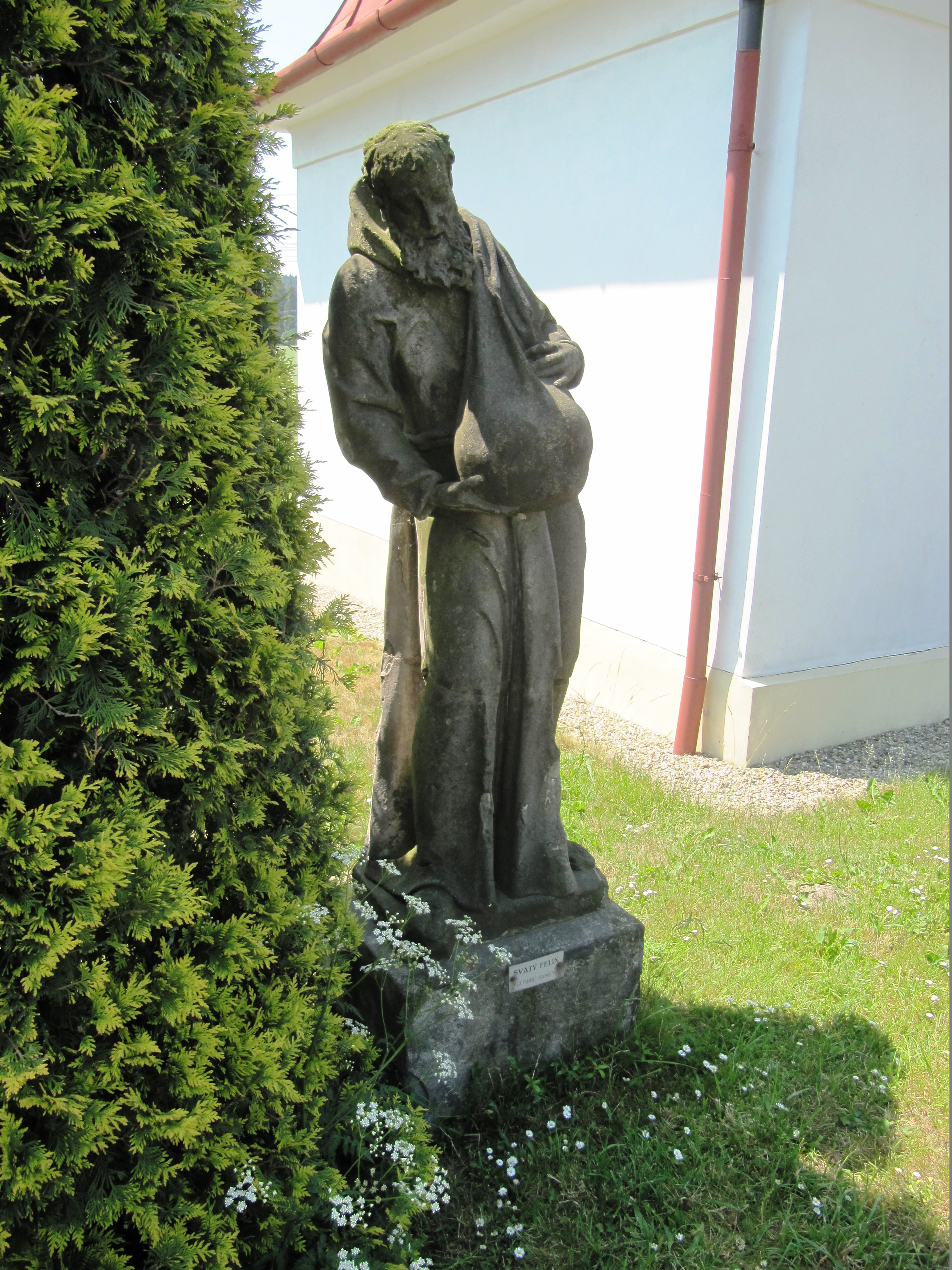 Větřkovice, Opava District, Czech Republic, part Nové Vrbno.